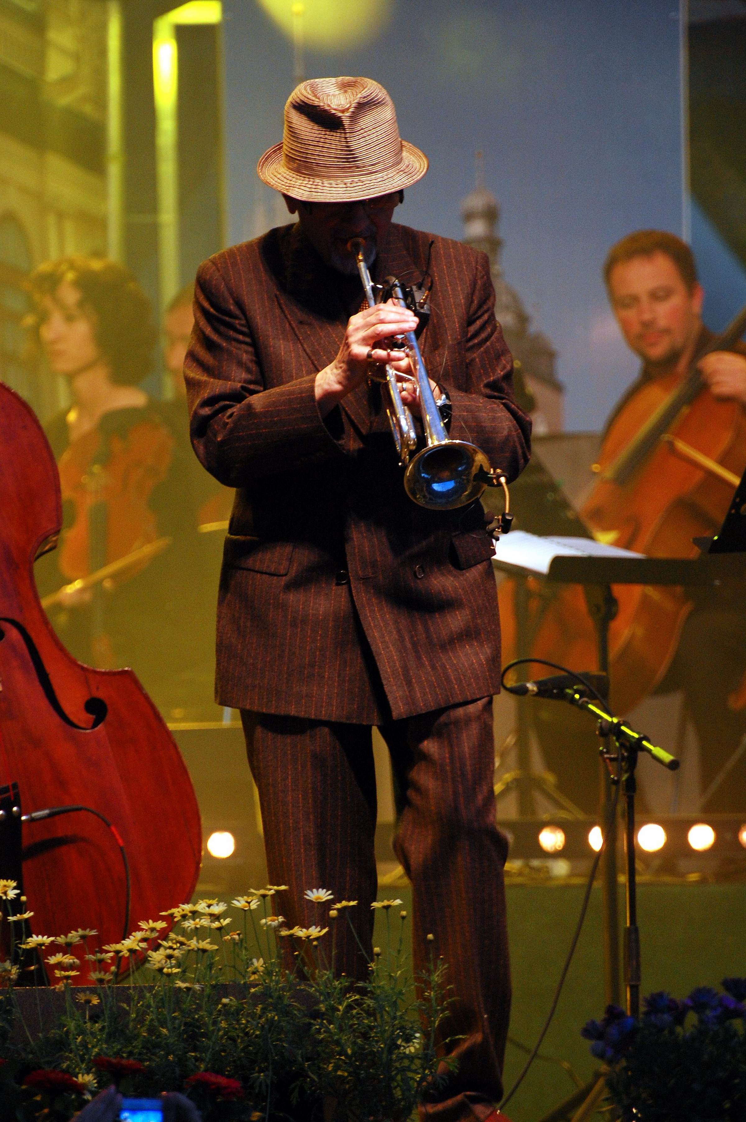 Jazz trumpeter and composer, Tomasz Stanko